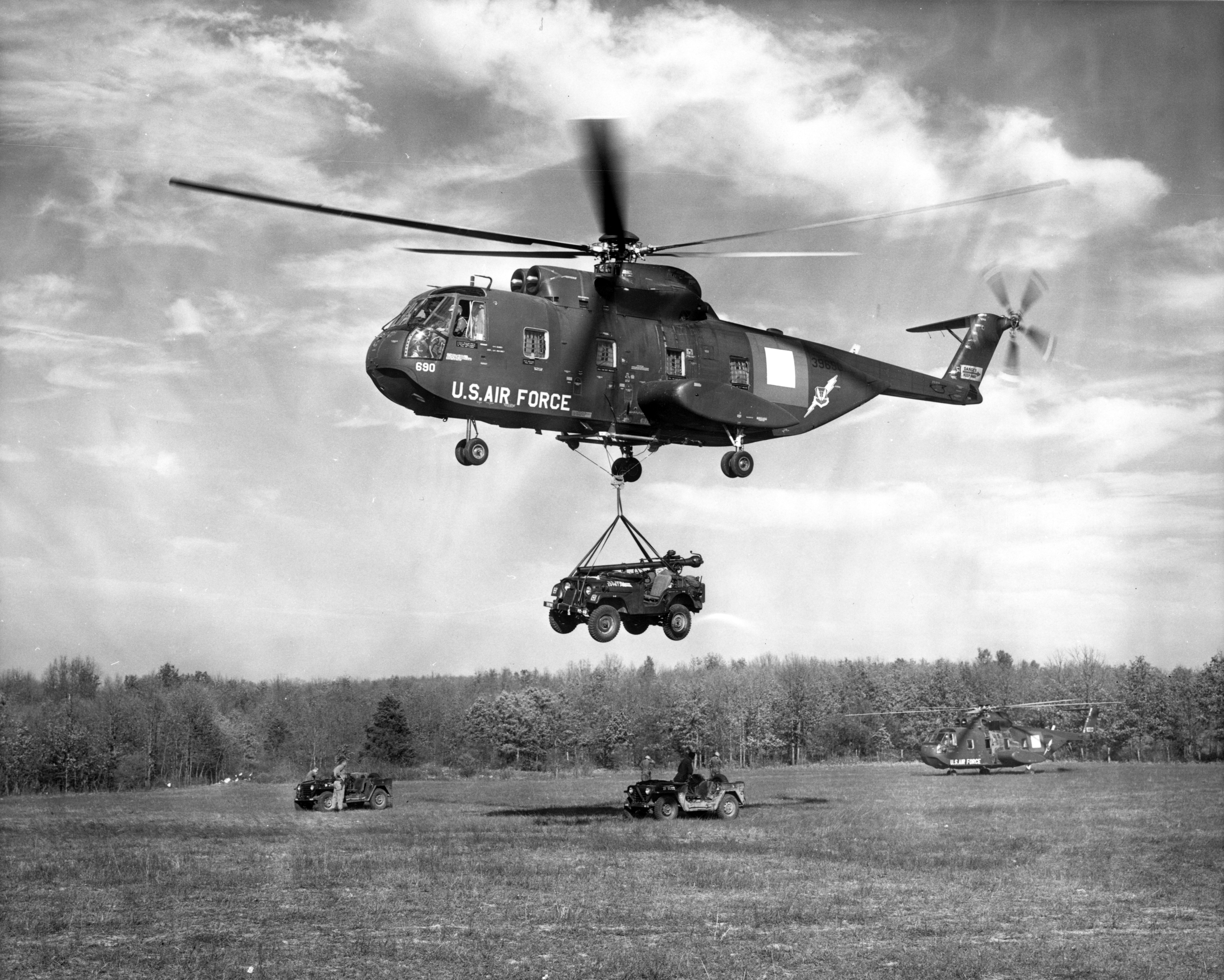 A U.S. Air Force Sikorsy CH-3C helicopter (s/n 63-9690) airlifts a 106 mm recoilless rifle mount on a U.S. Army jeep from a rear area into the "battle zone" in support of "OZARK" forces. This action was part of a simulated "battle" between the "OZARK" and "SIOUX" forces during U.S. Strike Command's Joint Exercise "GOLD FIRE I", held in southern Missouri, 10 November 1964.